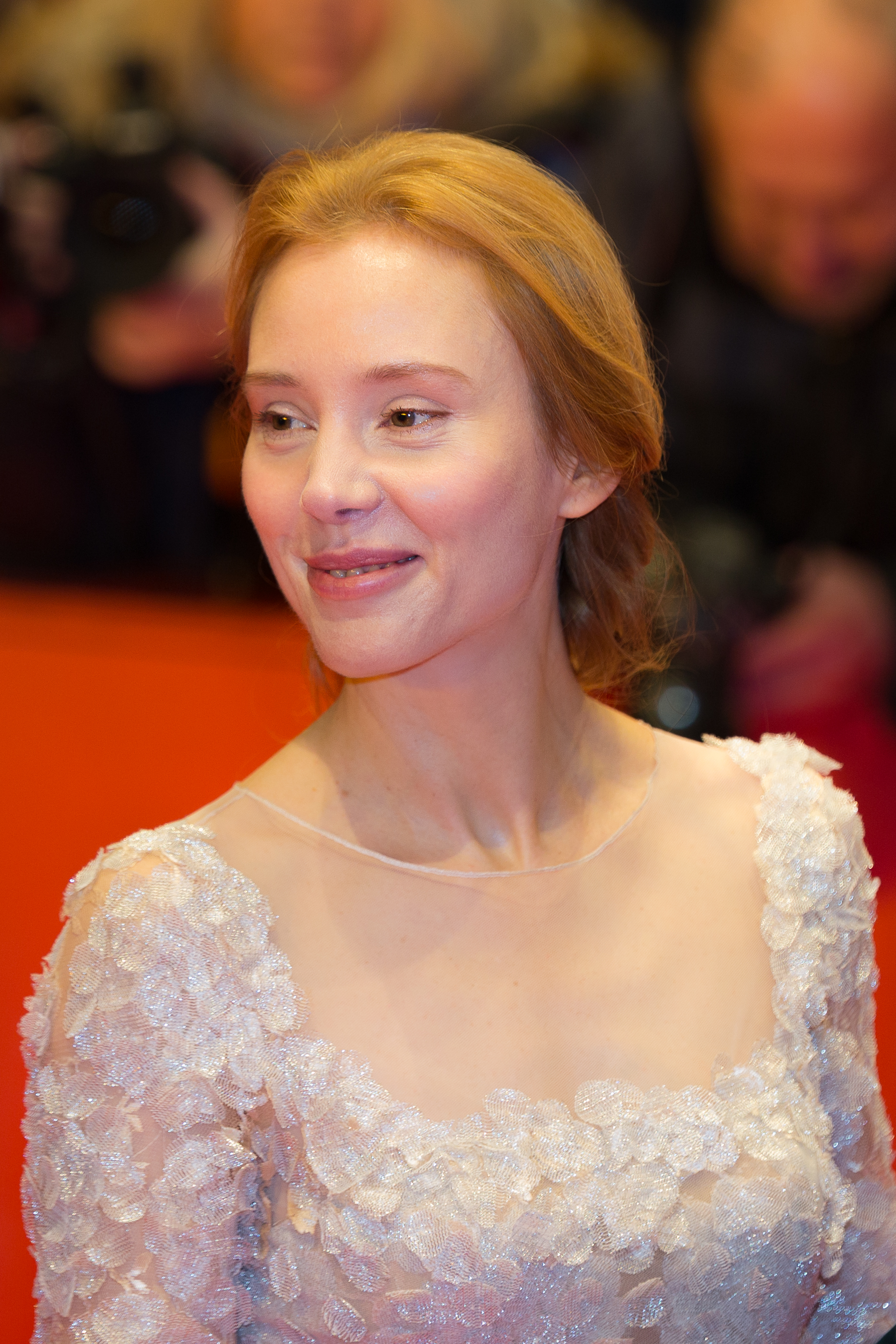 Franziska Petri on the red carpet of the Berlinale 2017 opening film